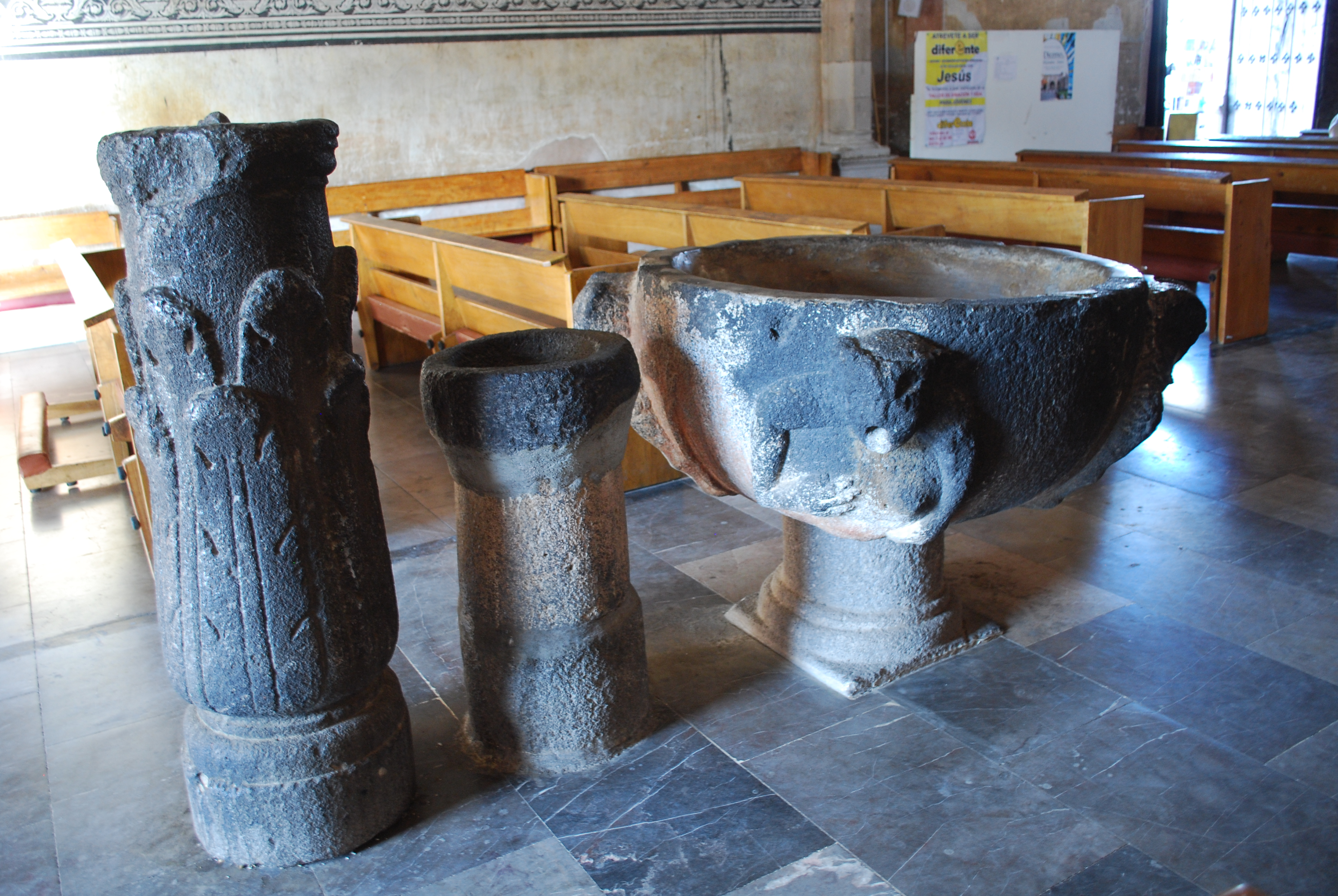 Stone fonts at the front of San Juan Bautista Church in Yecapixtla, Morelos, Mexico